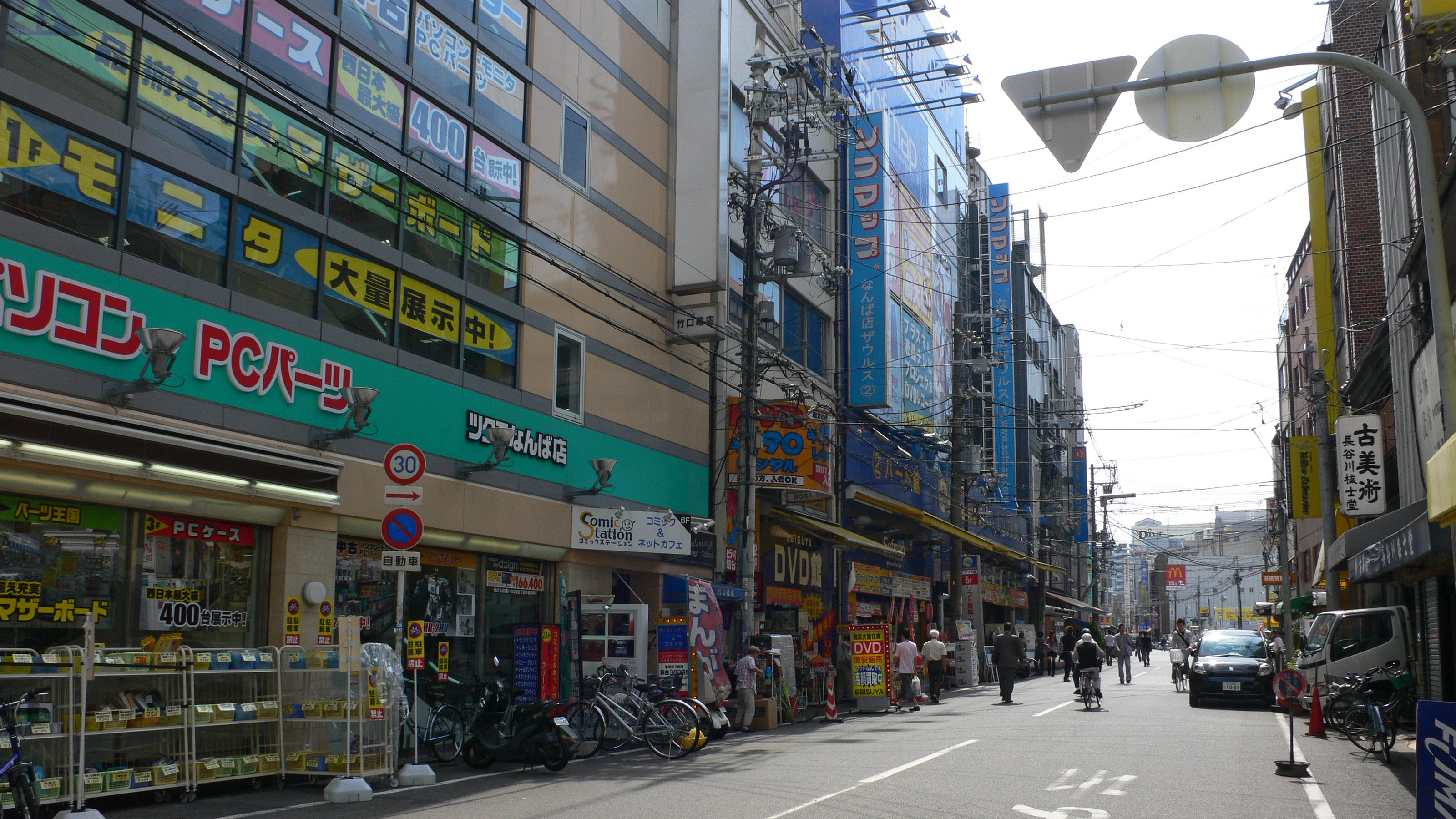 Denden-town in nipponbashi, Osaka, Japan